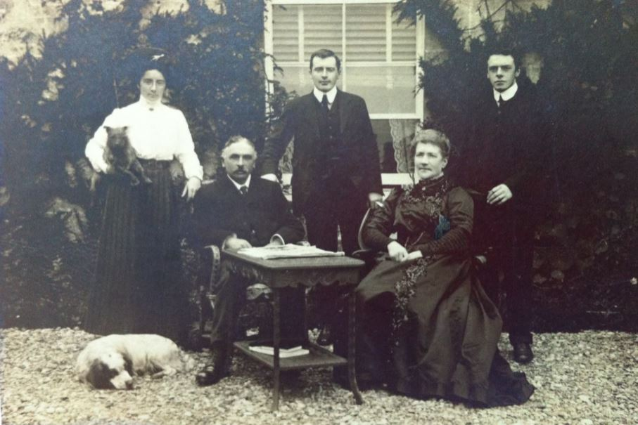 Photograph of the Family of John Francis and Janie Sutherland (nee Mackay).